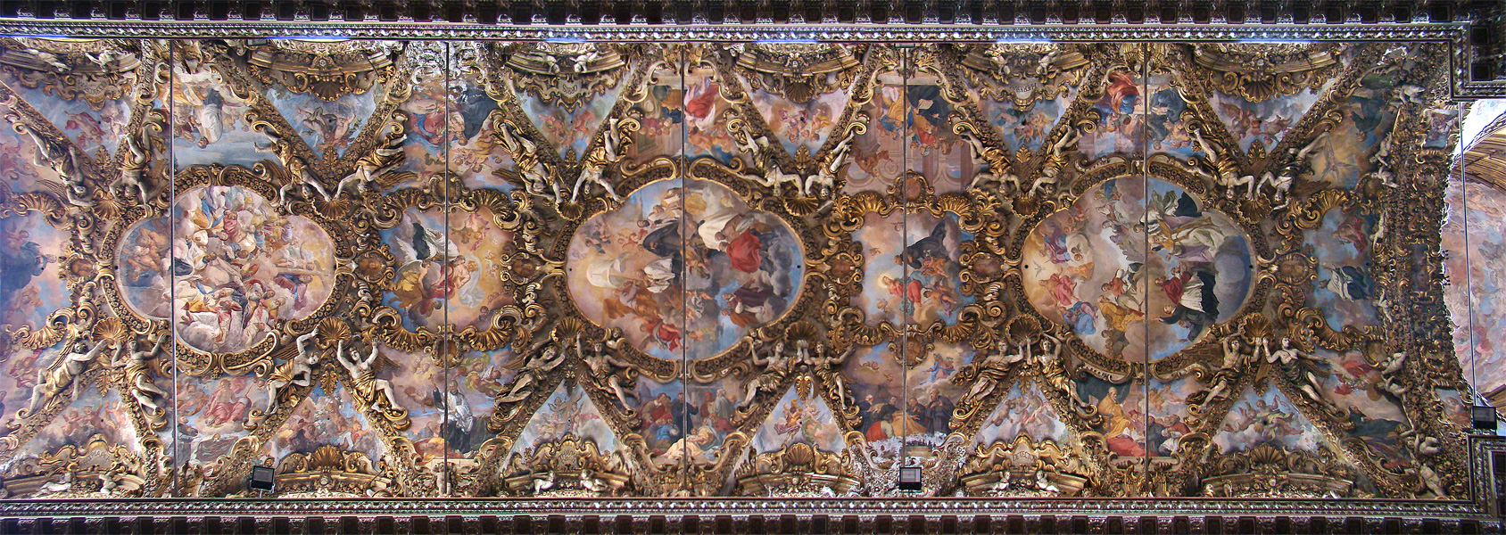 Church of San Giuseppe dei Teatini, Palermo, Sicily, Italy. Vault over the nave.